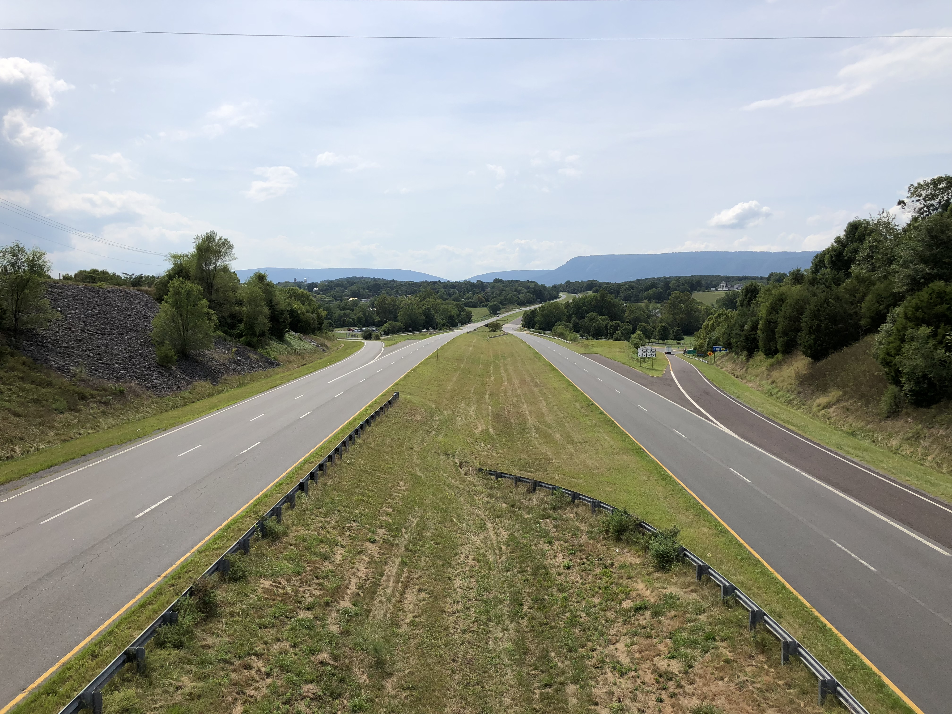 View west along U.S. Route 211 (Lee Highway/Luray Bypass) from the overpass for Virginia State Route 731 (Collins Avenue) in Luray, Page County, Virginia